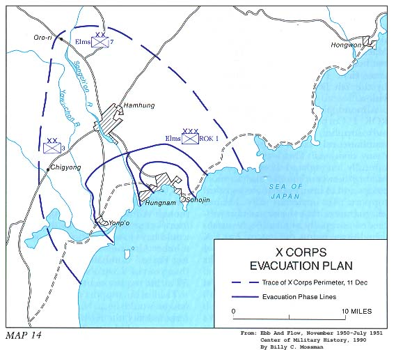 Hungnam evacuation map December 1950